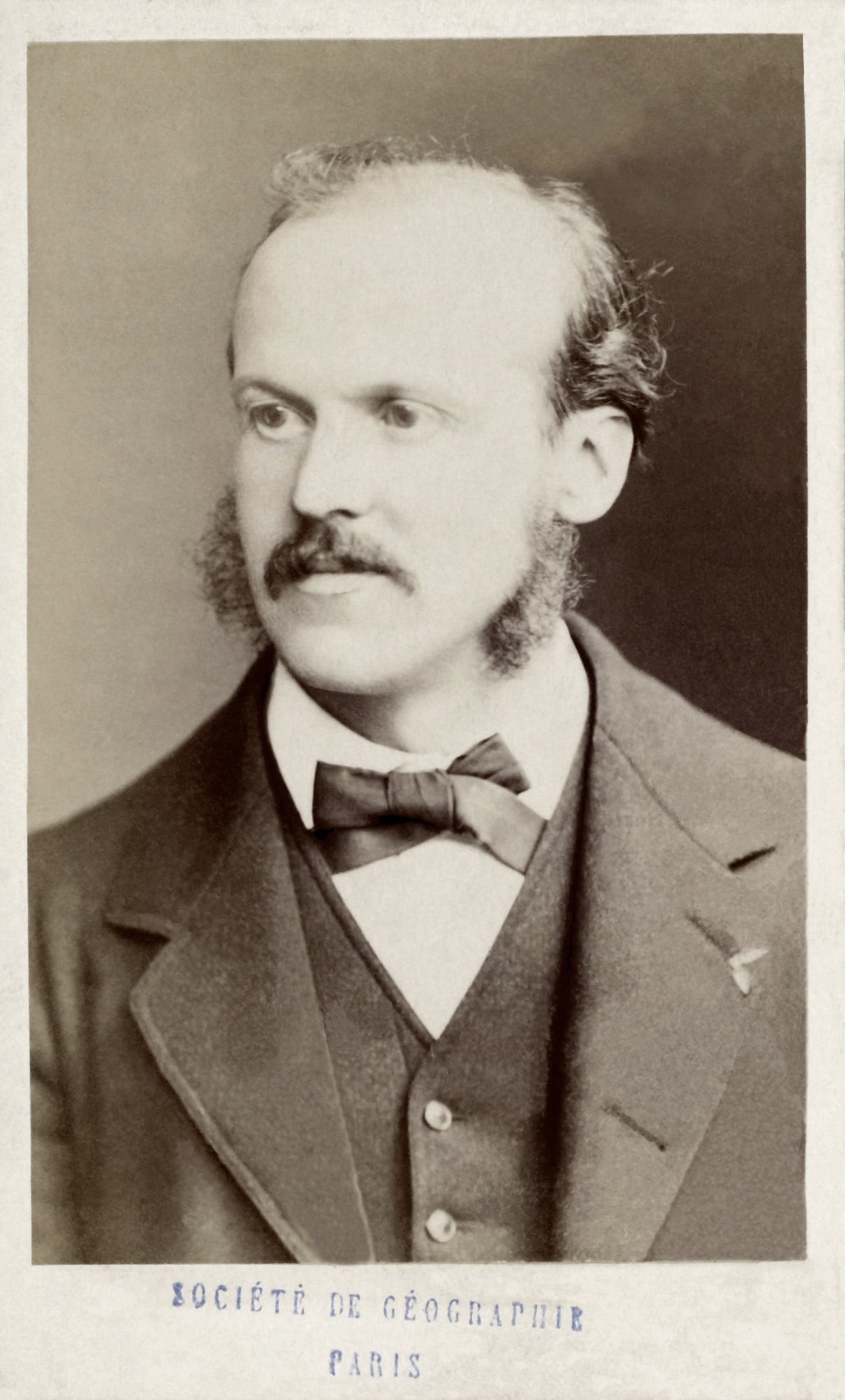 Alphonse Milne-Edwards (1835-1900), french paleontologist, zoologist, ornithologist, botanist, professor, director of the Muséum National d'Histoire Naturelle of Paris.